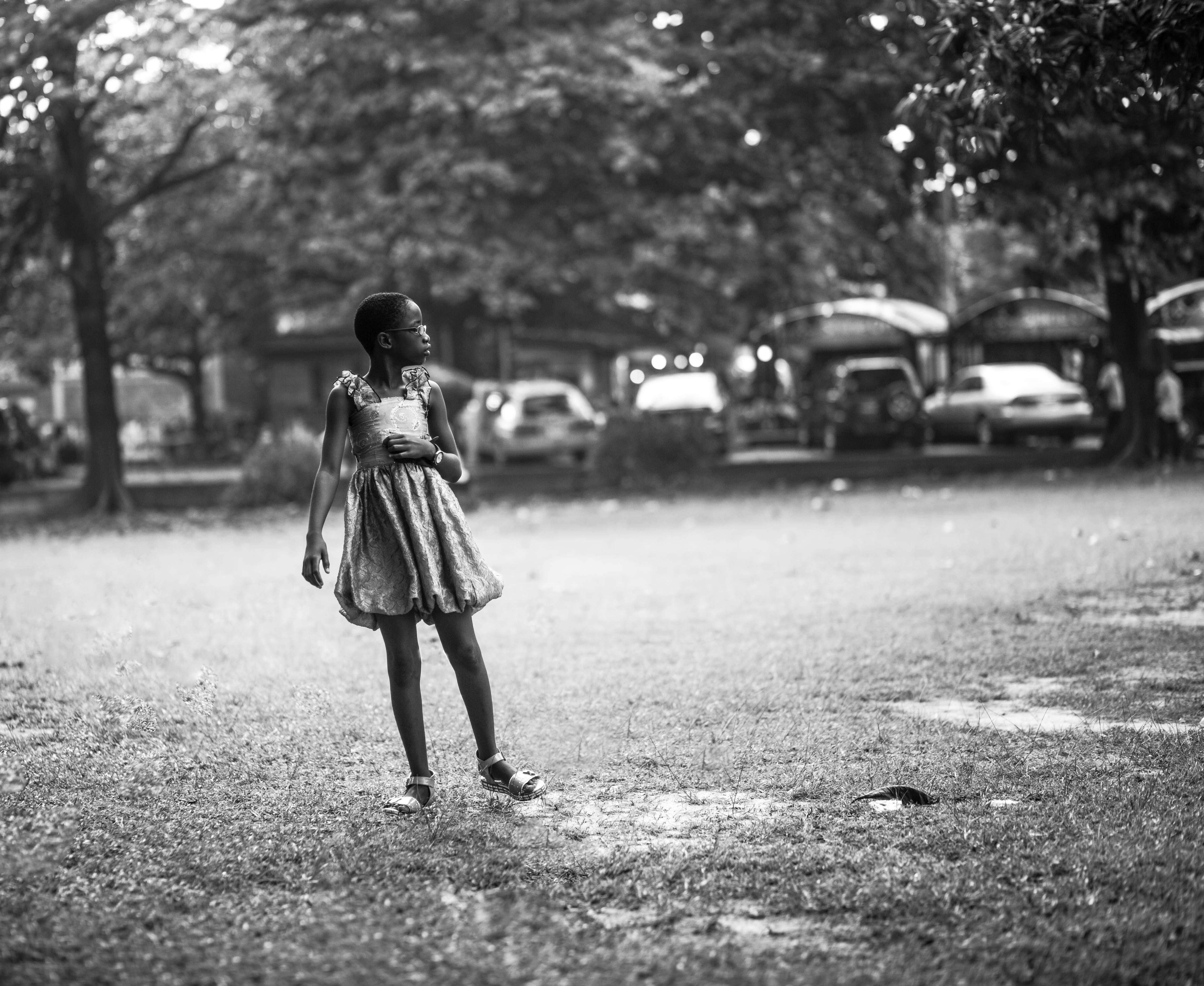 It describes a young girl changing her direction when she found another focus. This is an image of Cultural Fashion or Adornment from Nigeria